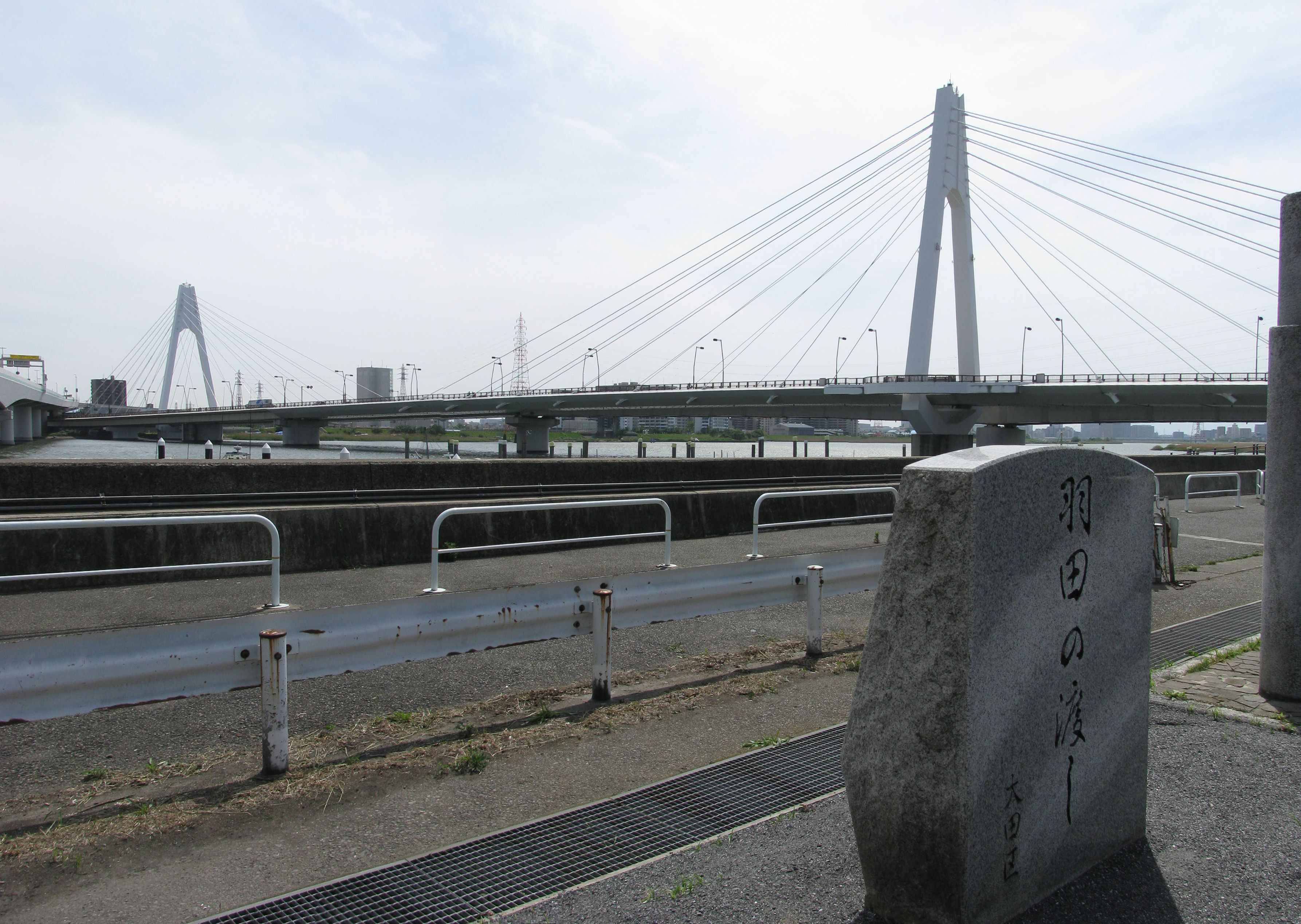 The Daisi-basi is a bridge of the Tokyo and Kanagawa Prefectural Route 6 over the Tama River, connects Ōta, Tokyo and Kawasaki-ku, Kawasaki, Kanagawa Prefectuer.